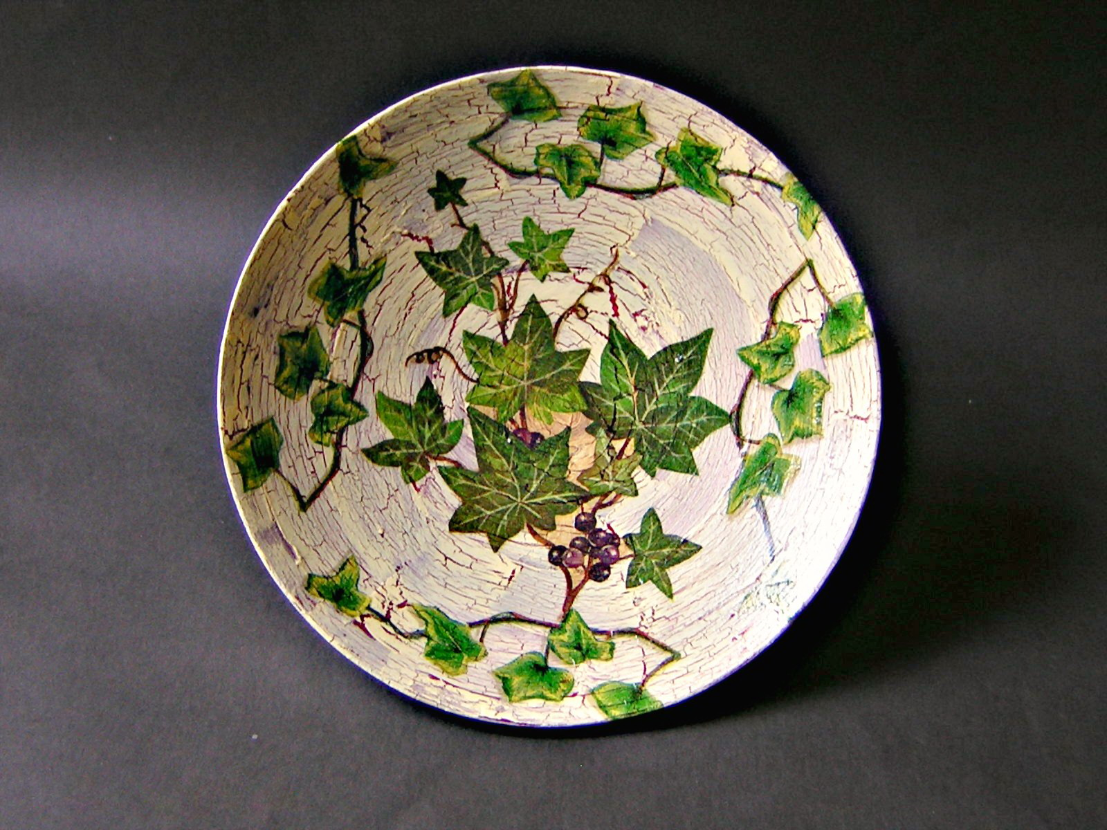 Decoupage